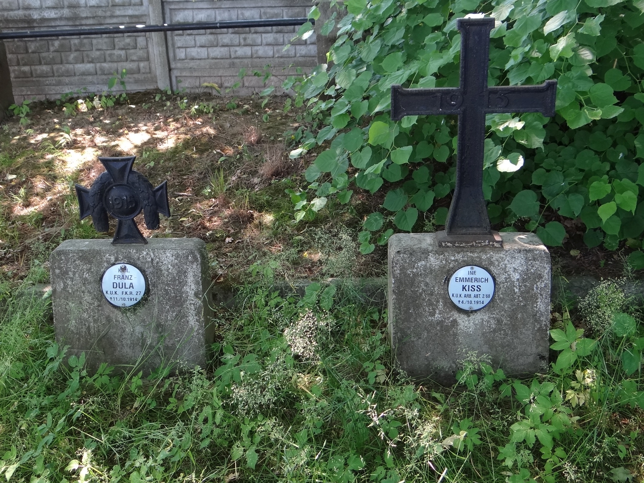 World War I Cemetery nr 160 in Tuchów